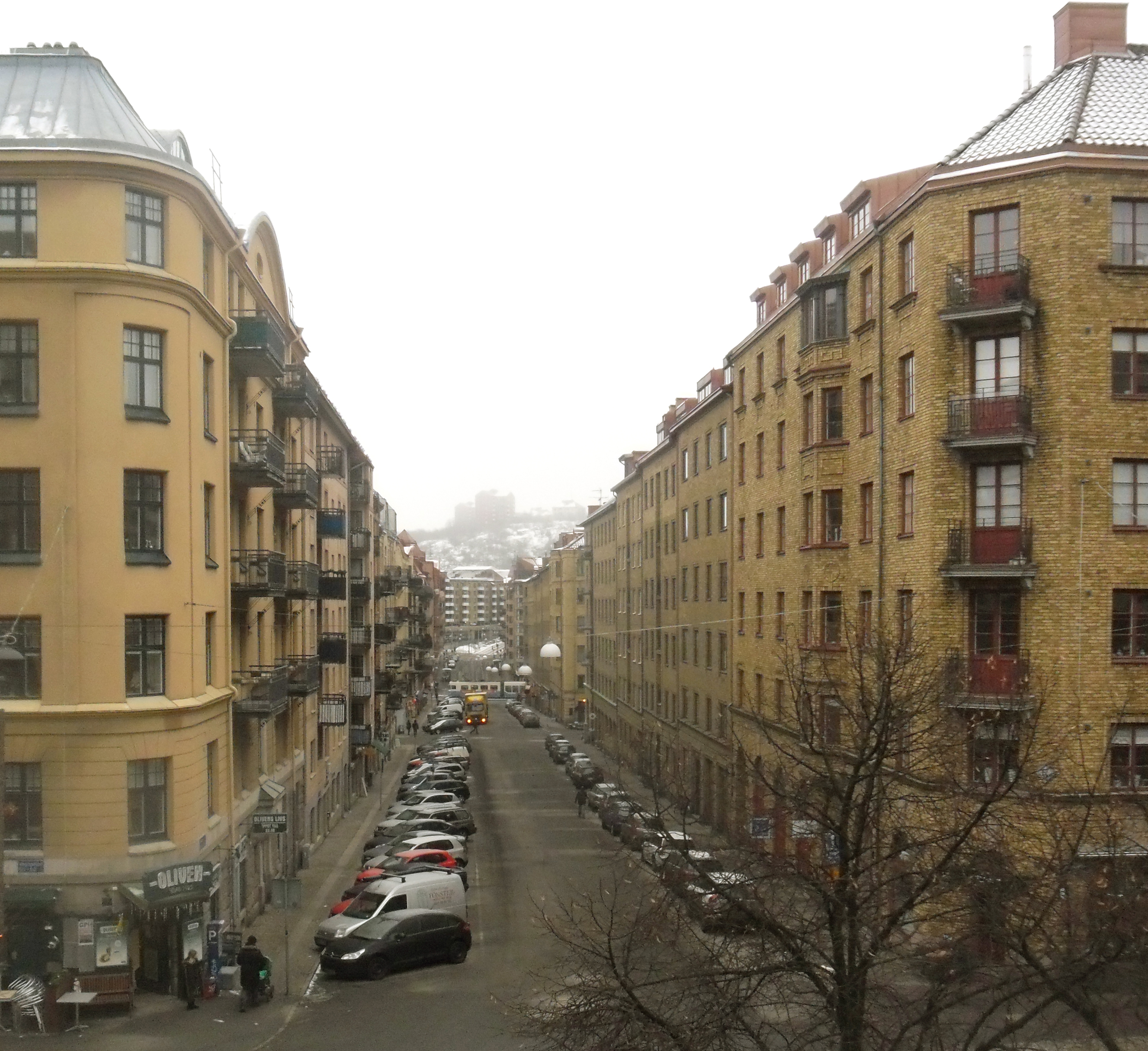 Olivedalsgatan from the west. Buildings from about 1900 to the left and functionalist buildings of the later 1920s to the right. Further away newer buildings of the 1980s.